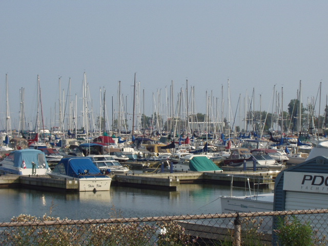 Self-taken photo.